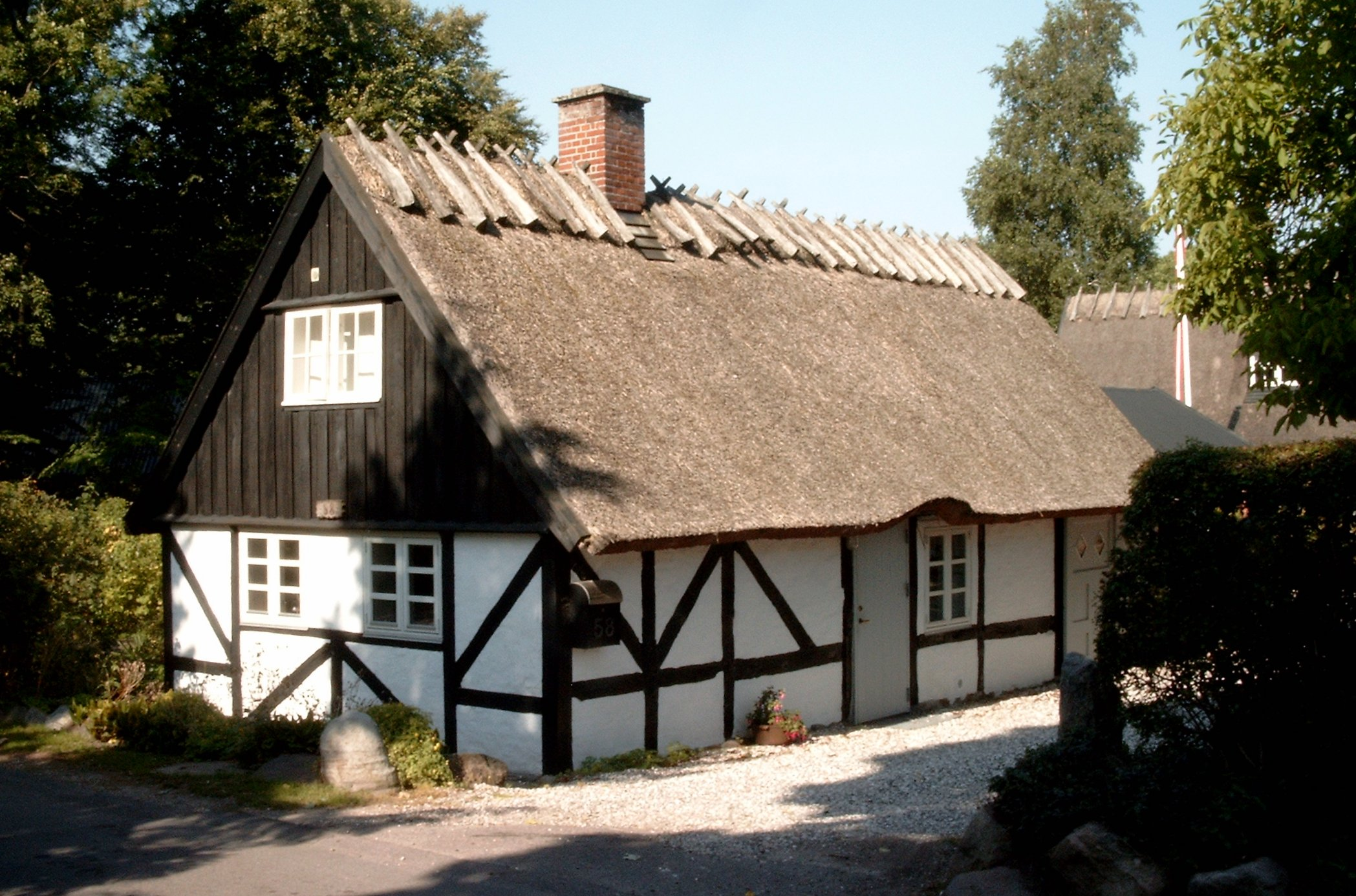 Typical half-timbered village house with thatched roof and white exterior. Høje Taastrup, Denmark. Photographer: Dan Simon